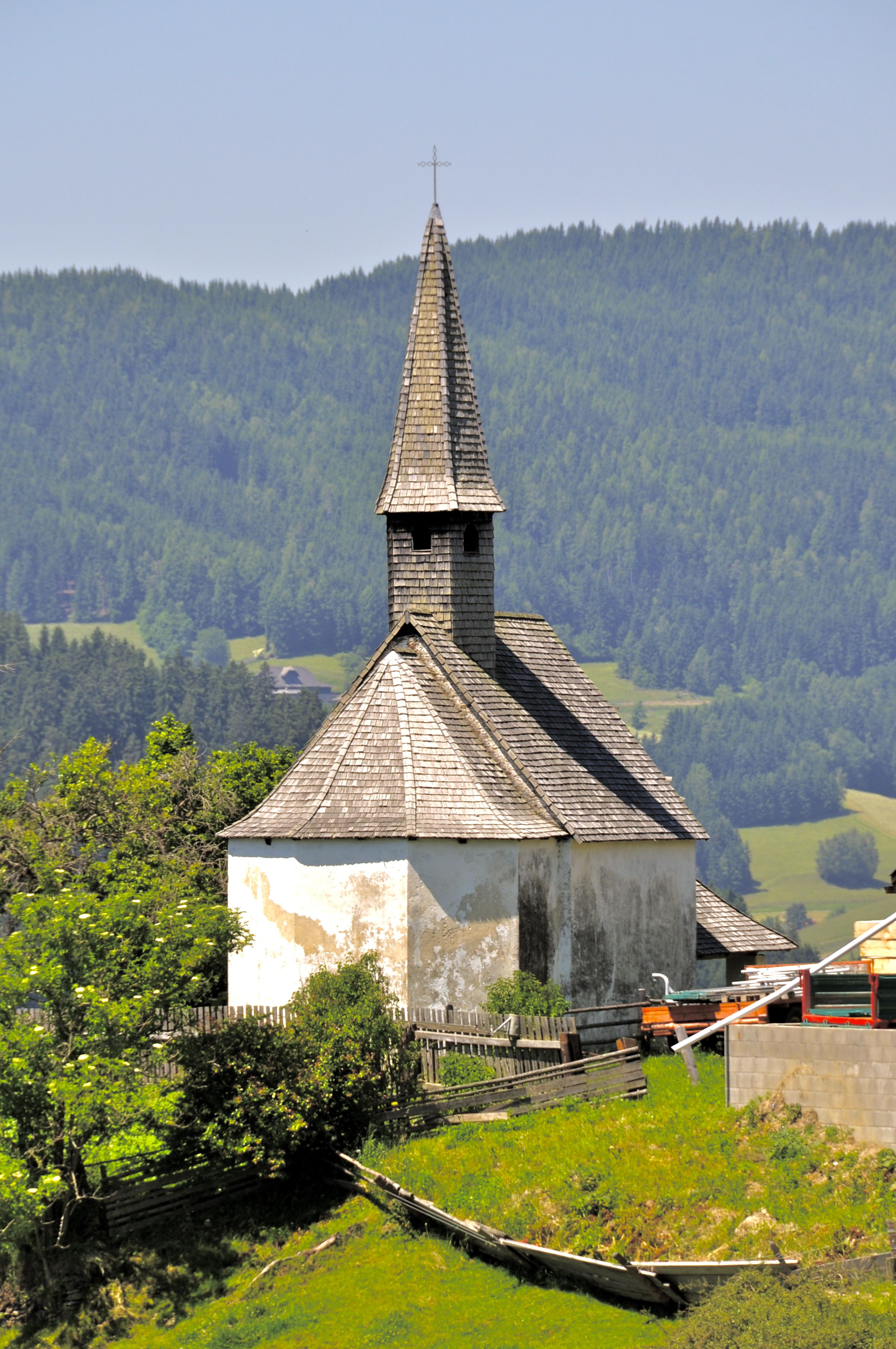 Subsidiary church Saint John the Baptist in Freundsam #7, municipality Liebenfels, district St. Veit an der Glan, Carinthia, Austria, EU